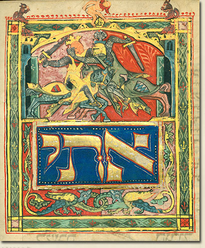 Illustration from the Tripartite Mahzor (MS A 384).